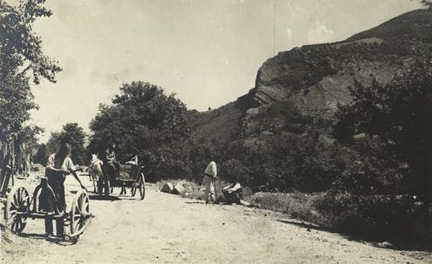 Bulgaria